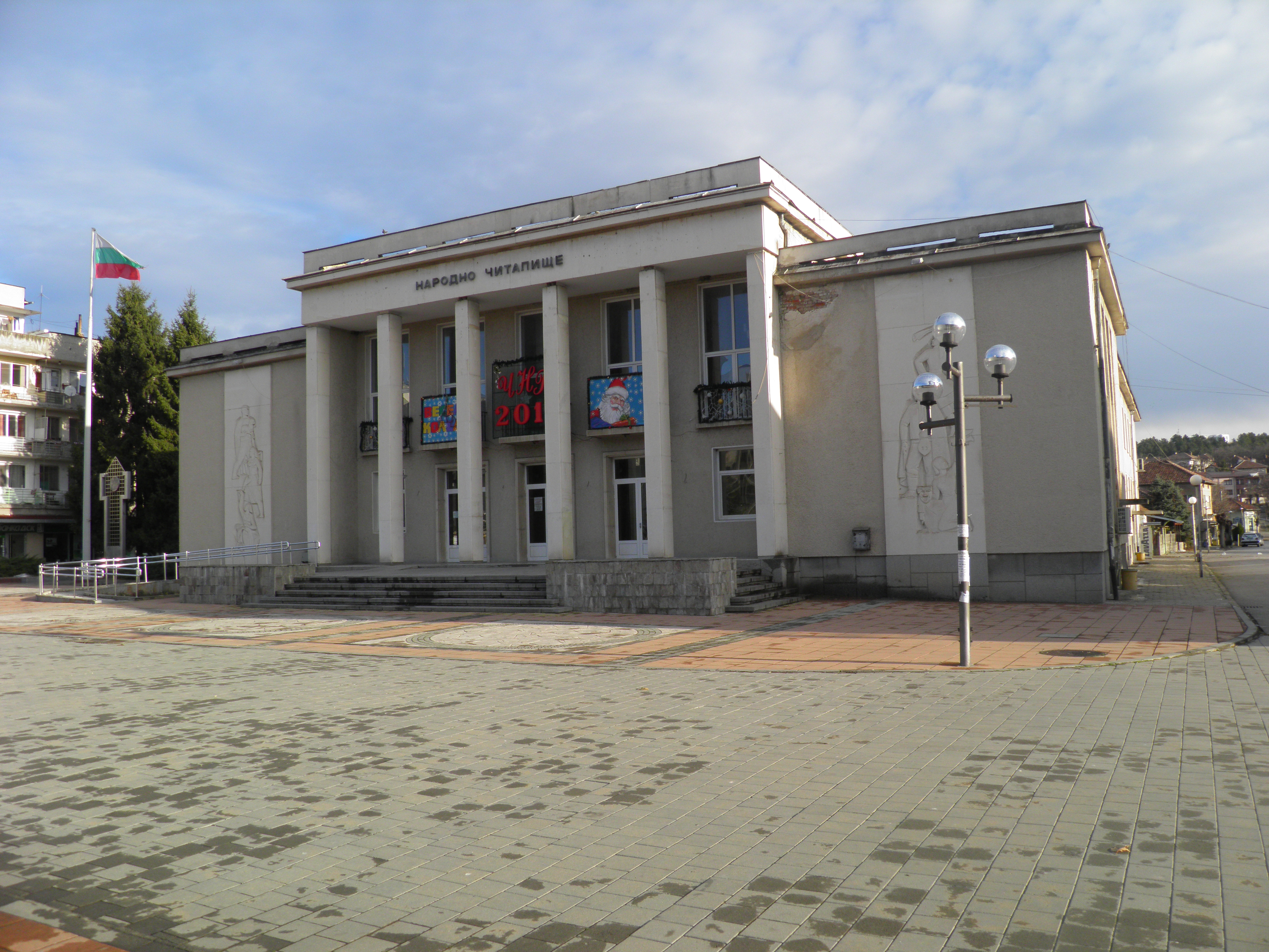 Народно читалище "Братство-1884" Павликени